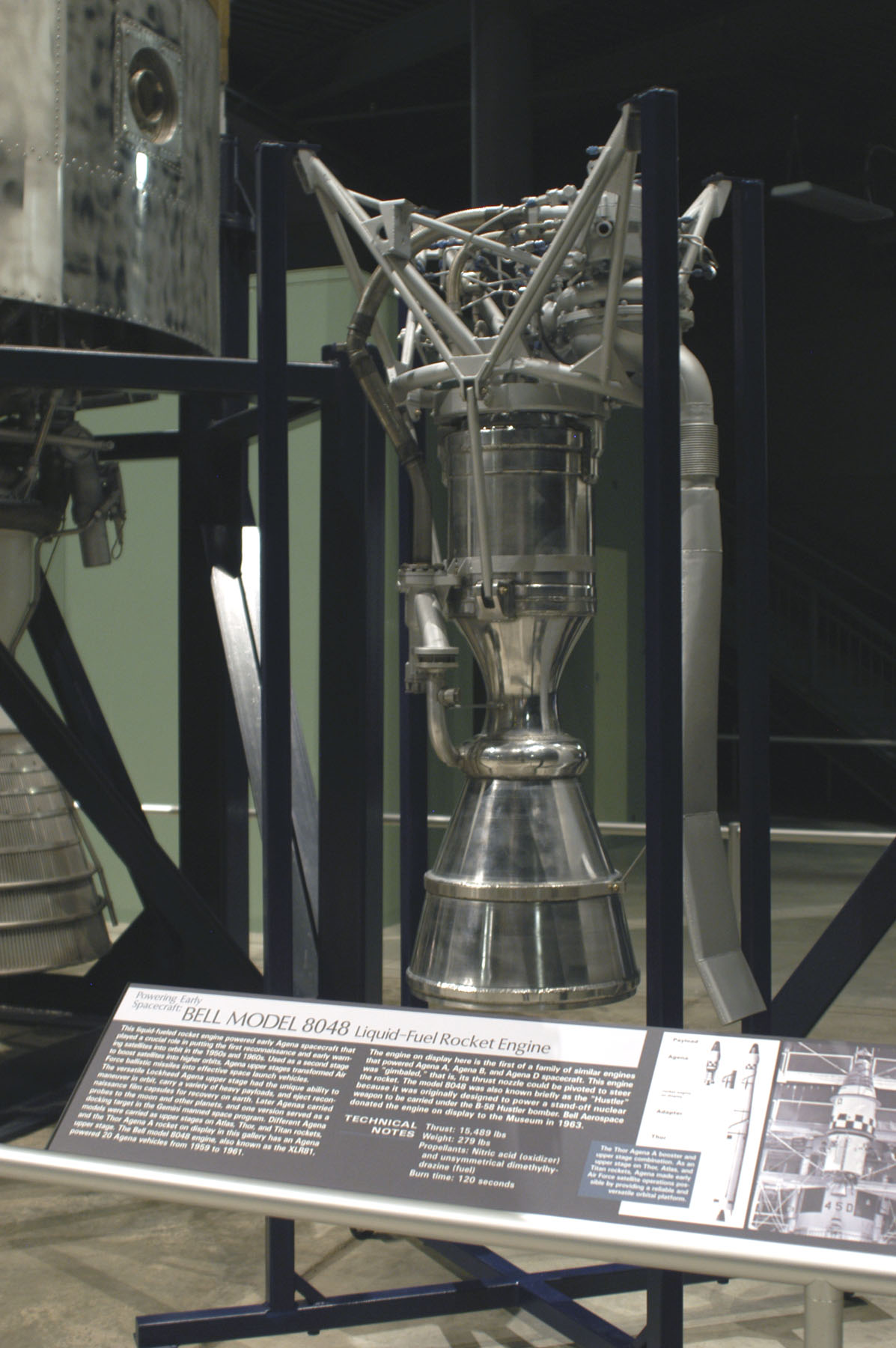 DAYTON, Ohio -- Bell Model 8048 liquid-fuel engine on display in the Missile & Space Gallery at the National Museum of the United States Air Force. (U.S. Air Force photo)